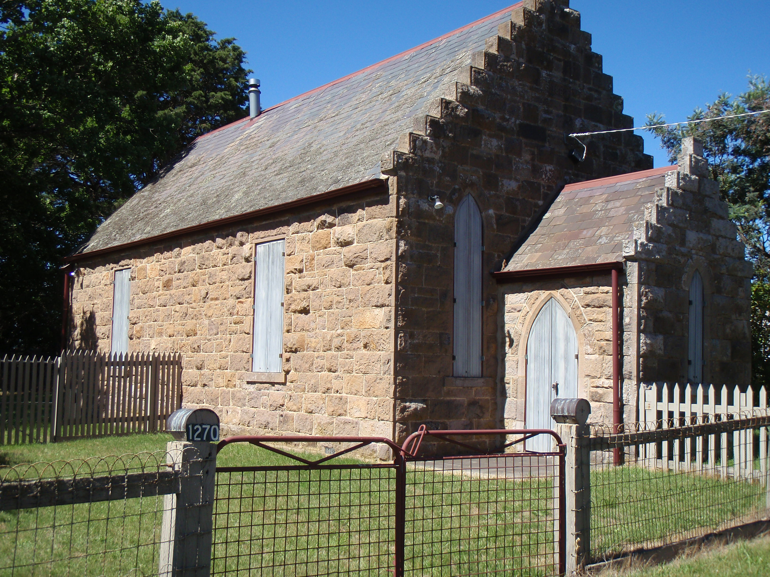 The old church (1868) in Newham, Victoria.